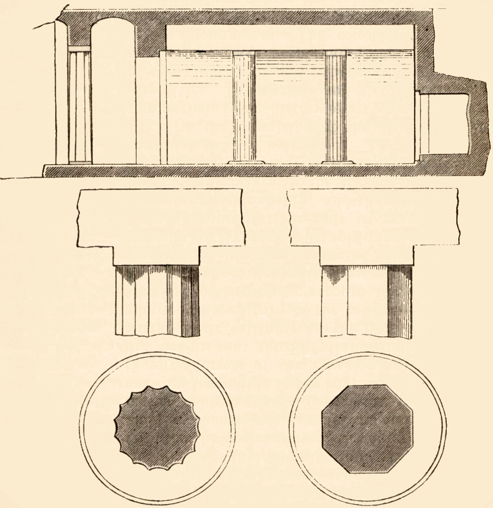 Various cross-sections of two columns from Beni Ḥasan. Line drawing.